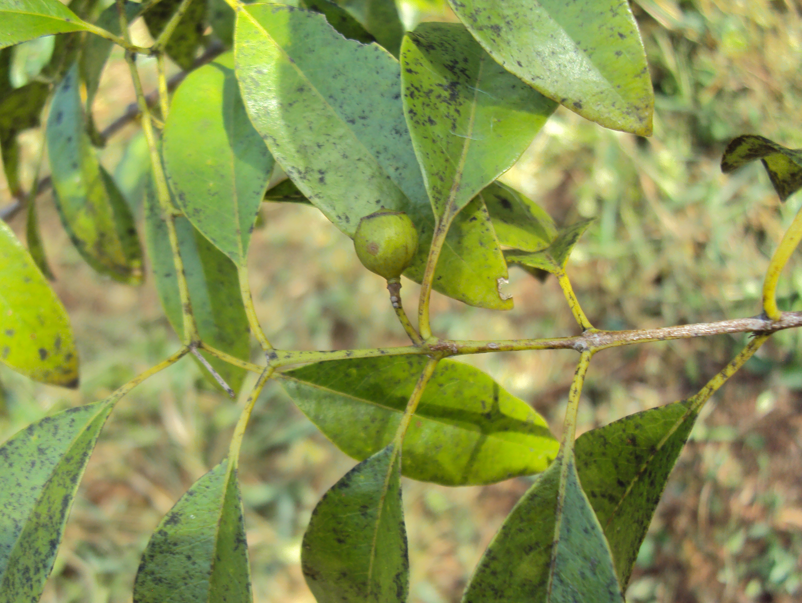 Sandal fruit